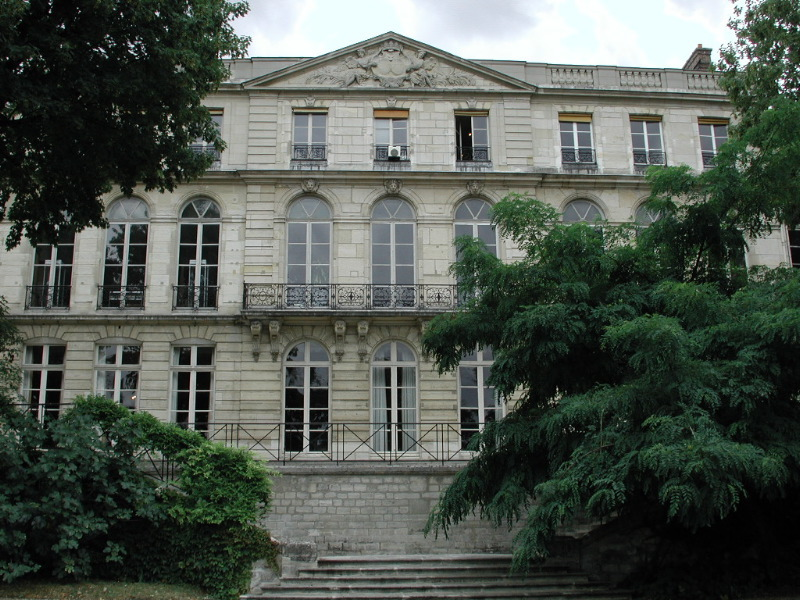 The building of Ecole des Mines (Hotel de Vendôme): garden-side view